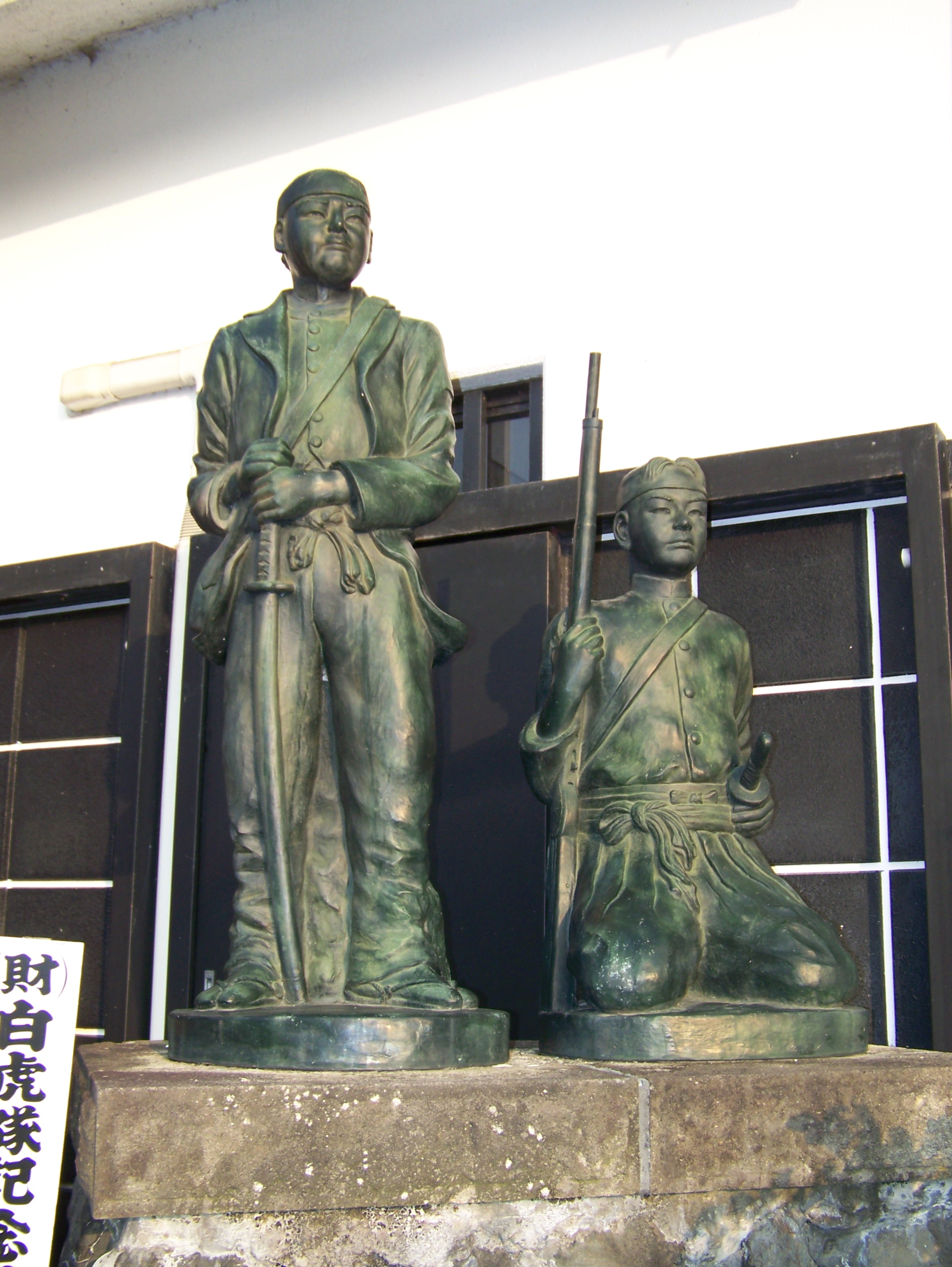 Statue of a Byakko-tai warriors at Iimori Hill, Aizu-Wakamatsu, Fukushima Prefecture, Japan. Photo by uploader. Taken 4 November 2006.